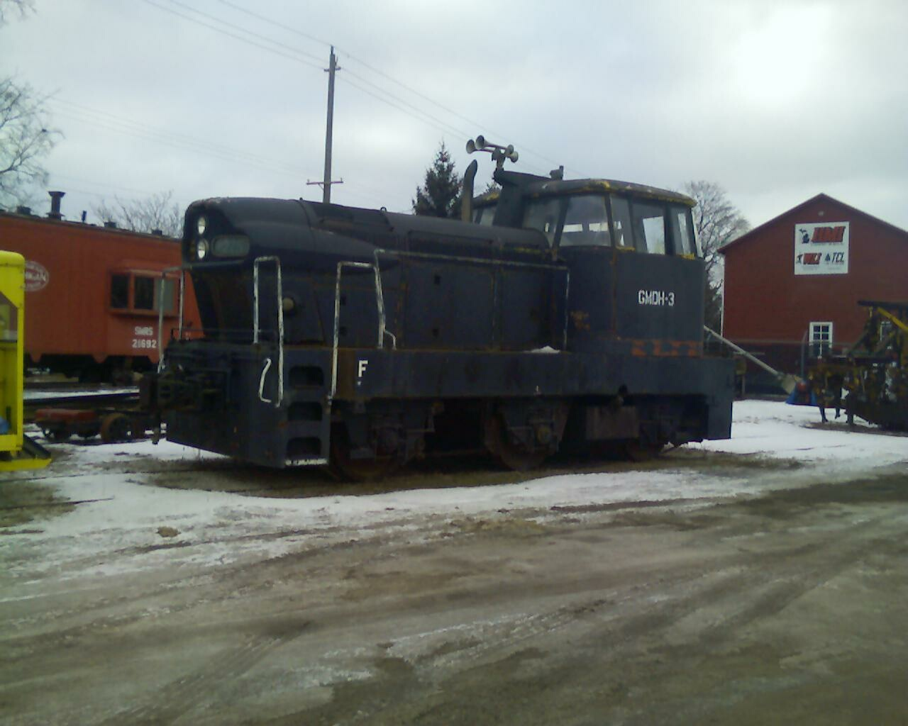 A current photo of the unique GMD GMDH-3 locomotive taken at Clinton, Michigan, 2009.